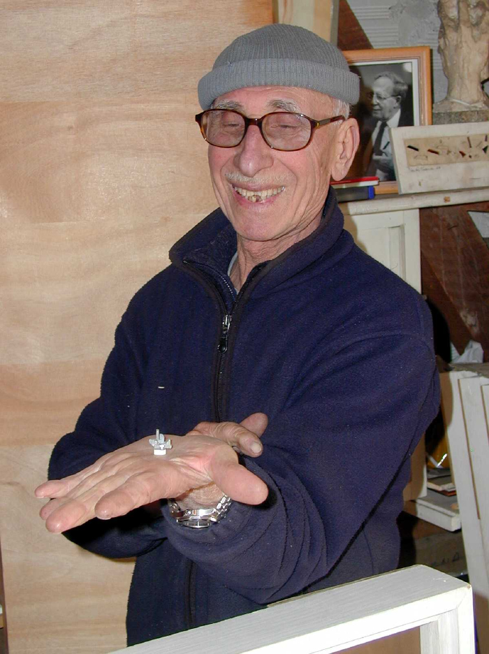 One of the models showing by Marino di Tena